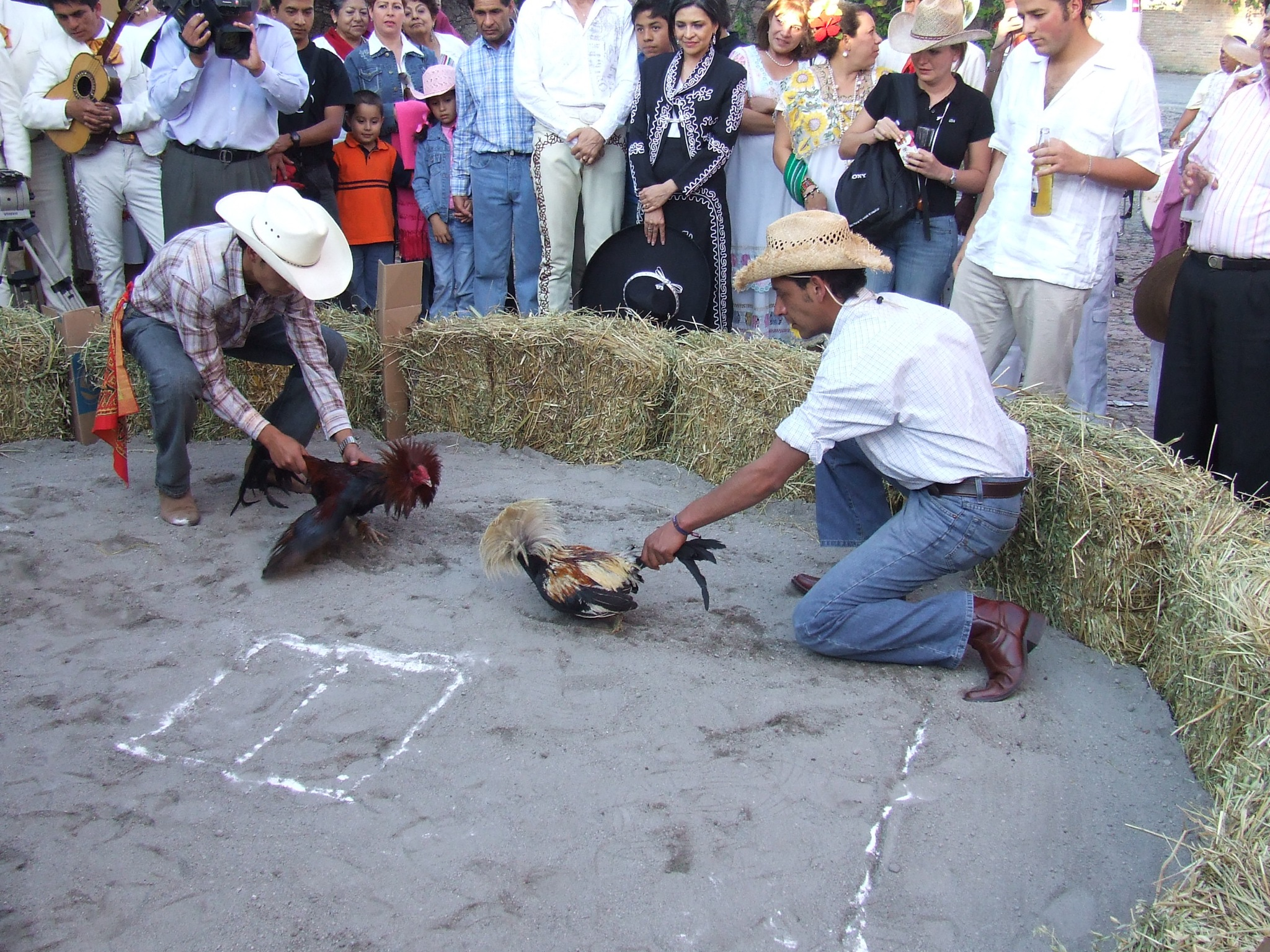 A cockfight being held at a wedding in Mexico.